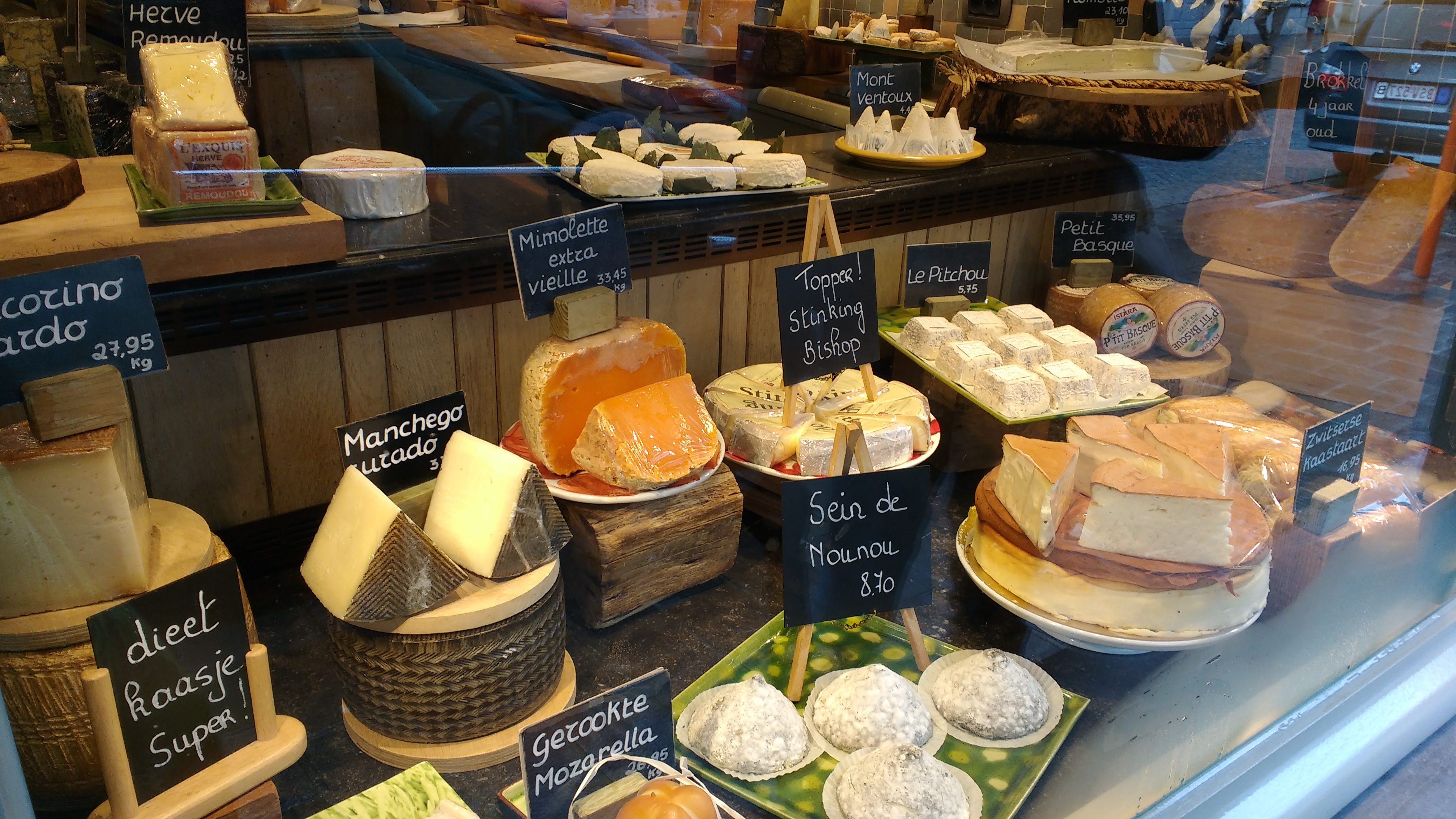 Cheese in Brugges (Belgium).